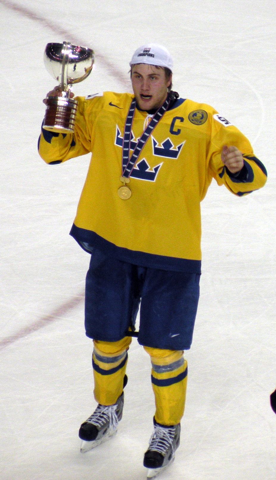 Swedish forward Johan Larsson celebrates with the 2012 World Junior Hockey Championship trophy following the gold medal game at Calgary, Alberta, Canada.